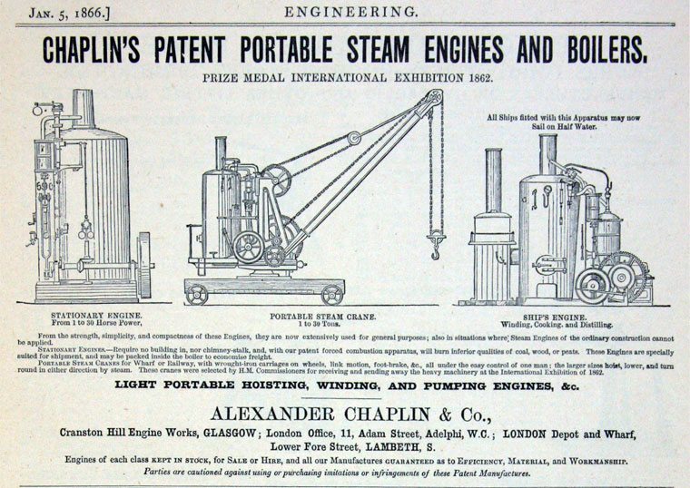 1866 advertisement of Alexander Chaplin & Co (Cranston Hill machine works), Glasgow. The portable steam crane pictured in the center is derived from a Robert William Thomson construction.